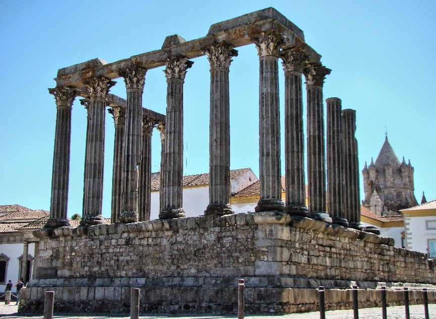 Temple of Diana